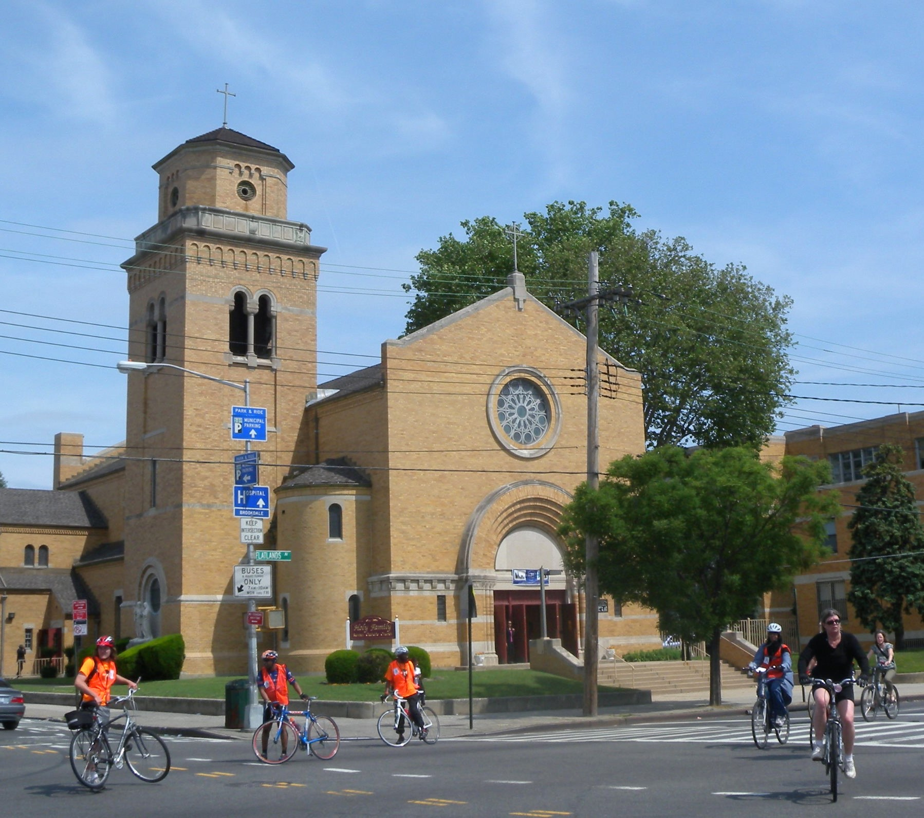 Looking north across Flatlands Avenue and Rockaway Parkway at Holy Family RC Church on a sunny morning.